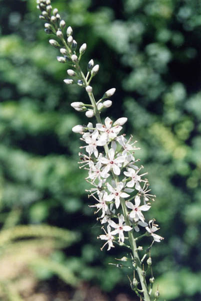 Lysimachia ephemerum